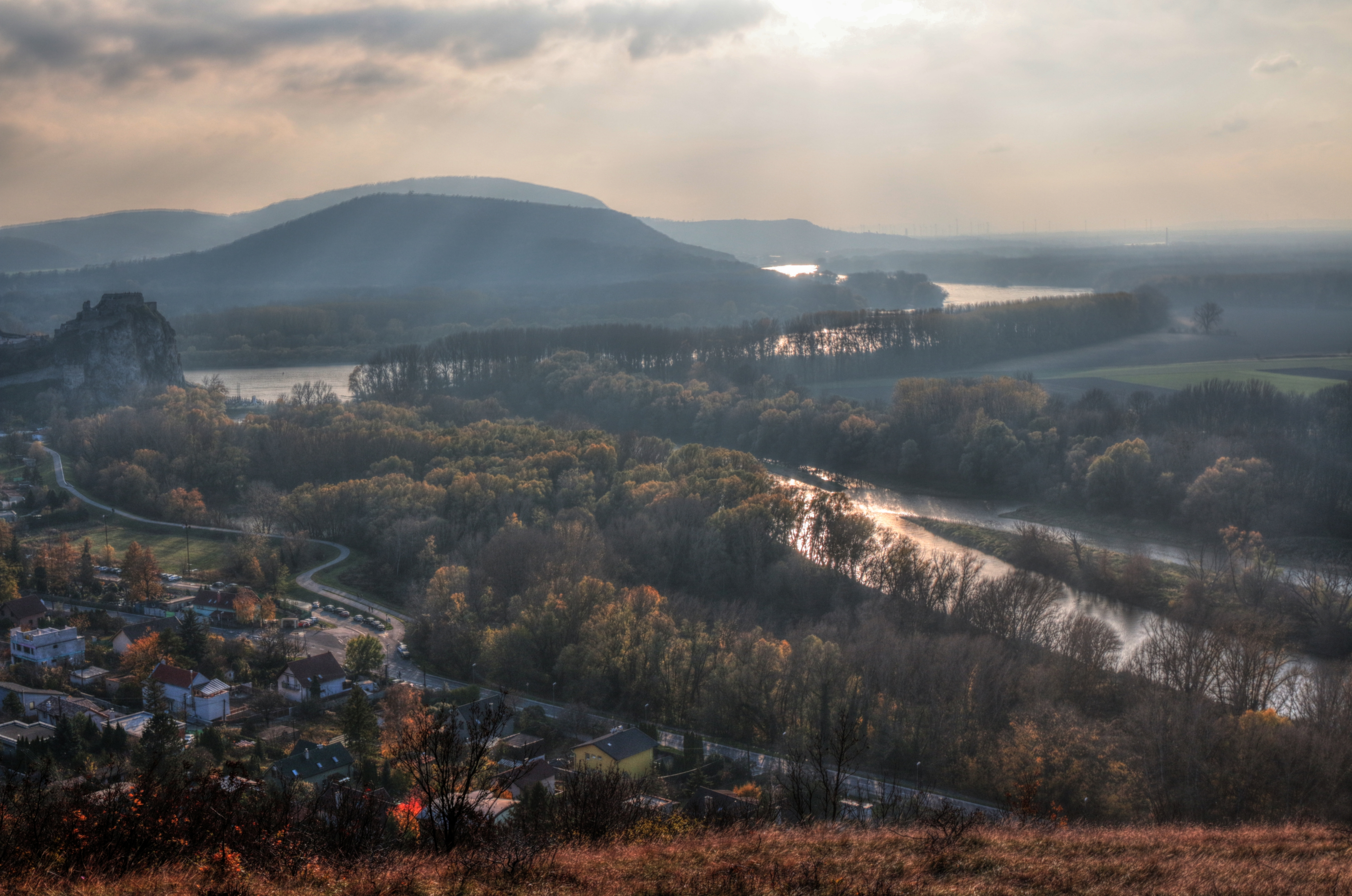 Tone-mapped HDR image of Danube and Morava confluence. 7 images vith 0.3 EV shift